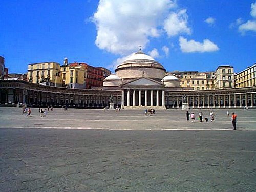 Private photo taken by the uploader.